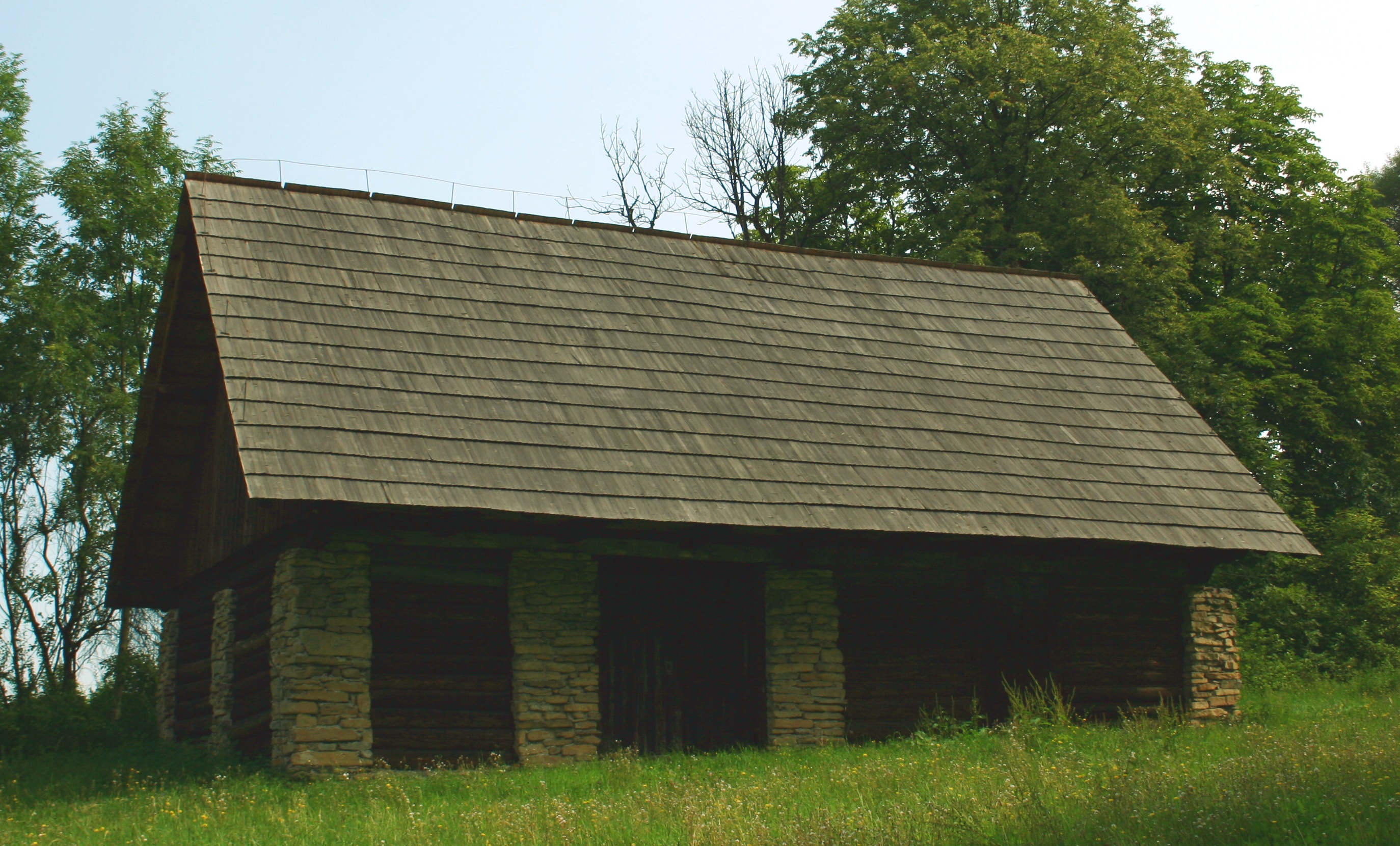 Skansen in Nowy Sącz, Poland